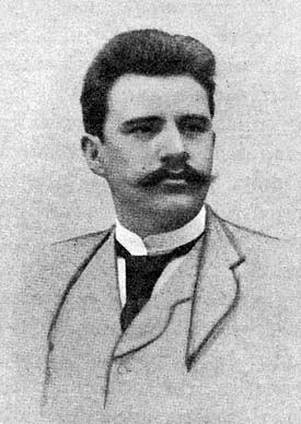 Axel Danielsson photo from around 1890.